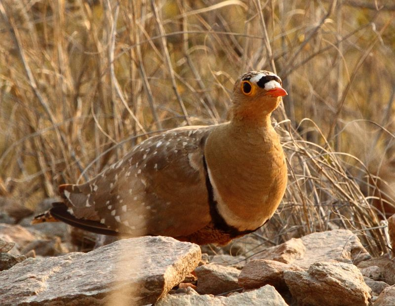 A male Double-banded Sandgrouse about 10 km east of Kakamasin, Northern Cape, South Africa.